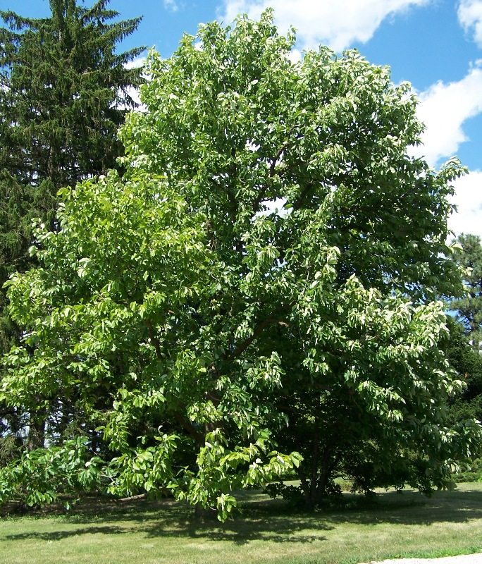 Magnolia acuminata (Cucumbertree). Morton Arboretum acc. 1046-3*1. 72 years old at this photo.